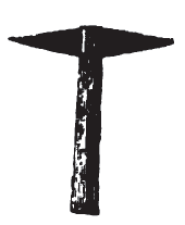 mill-pick